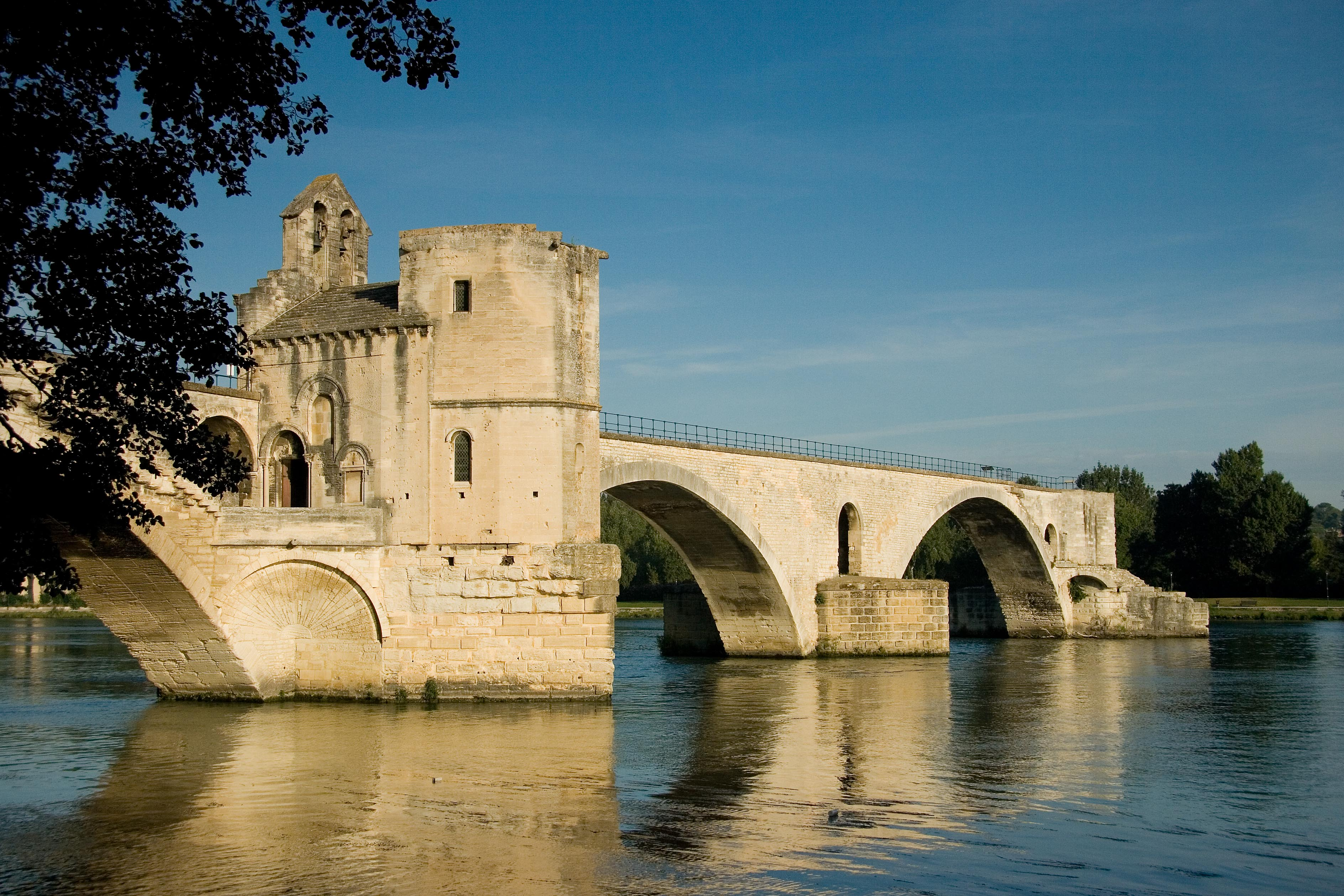 Pont Saint-Benezet also known as Le Pont d'Avignon